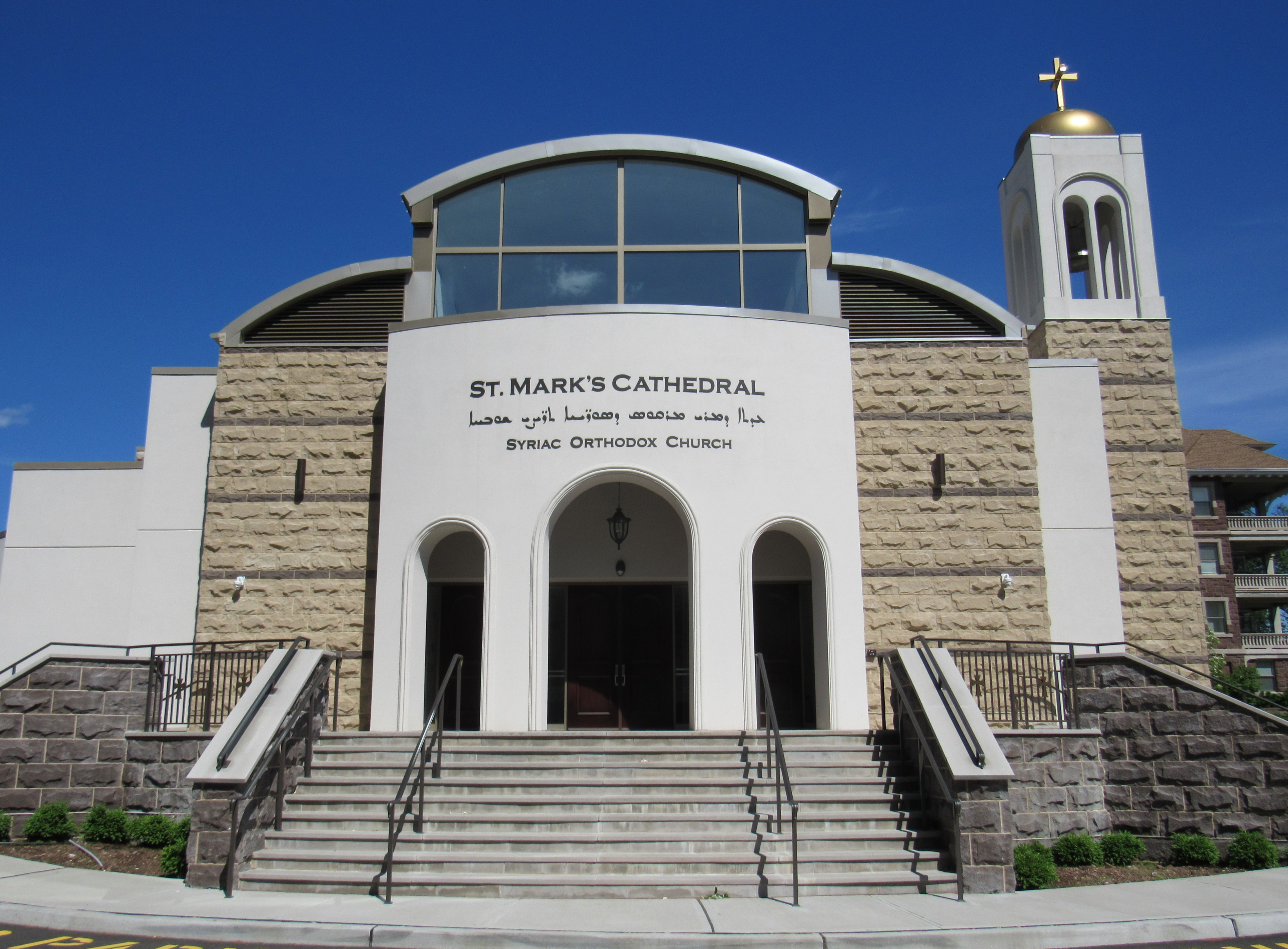 St. Mark's Syrian Orthodox Cathedral in Paramus, New Jersey.